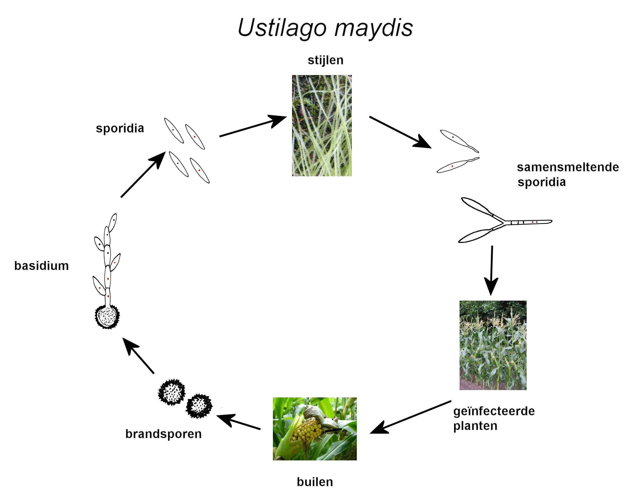 the maize disease corn smut. Picture taken on a maize field in Germany